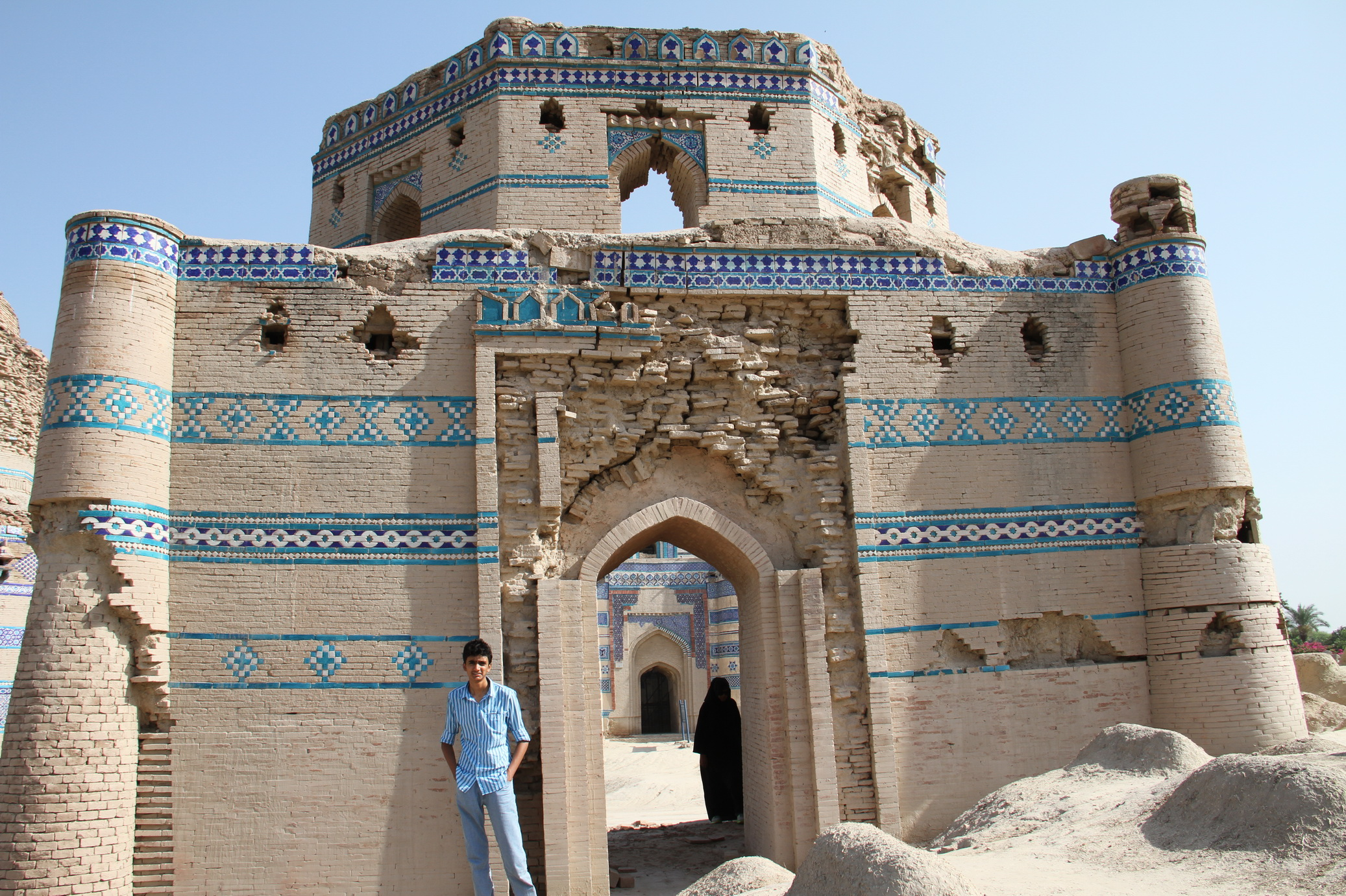 Shrine of Nuriya This is a photo of a monument in Pakistan identified as the PB-18